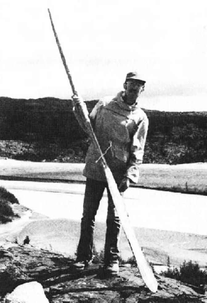 Carved wood paddle found in a driftwood layer at 561 m elevation in Alsek Valley.